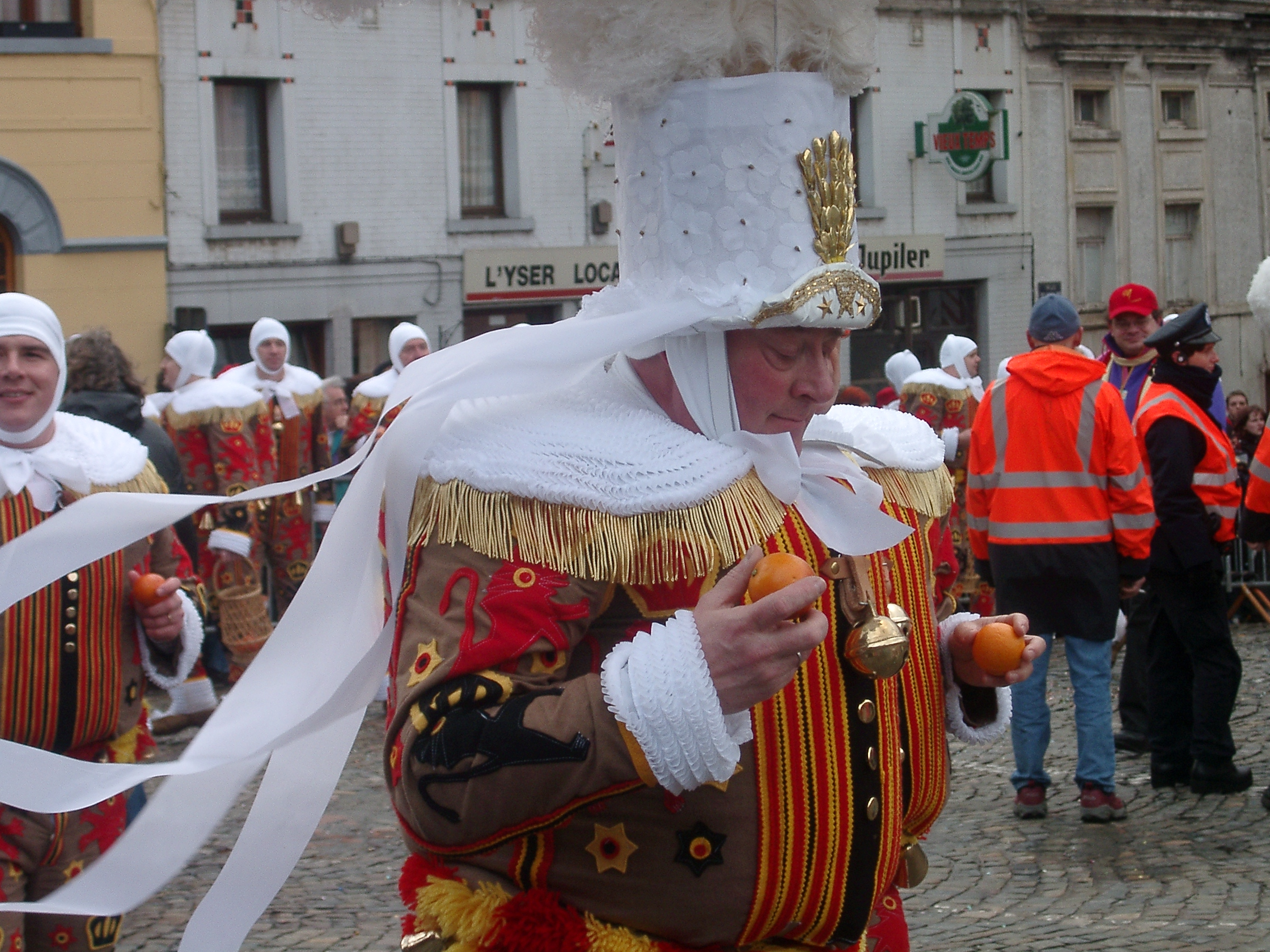 A Gille in full dress, Carnival of Morlanwelz, Belgium